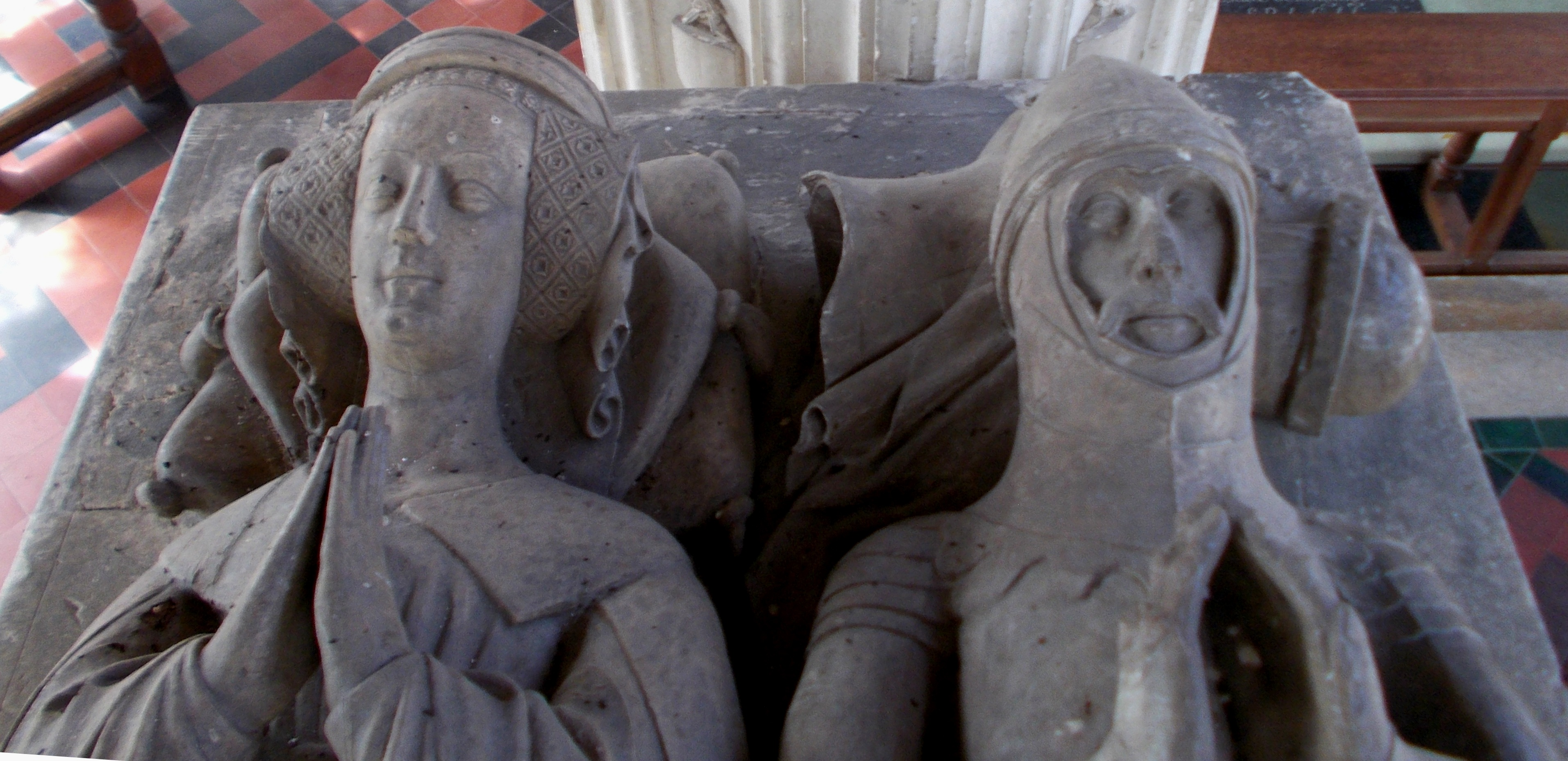 Detail (heads and hands only) from the full-length effigies of Michael de la Pole, 2nd Earl of Suffolk, and his wife Katherine Stafford, on their monument at Wingfield church in Suffolk